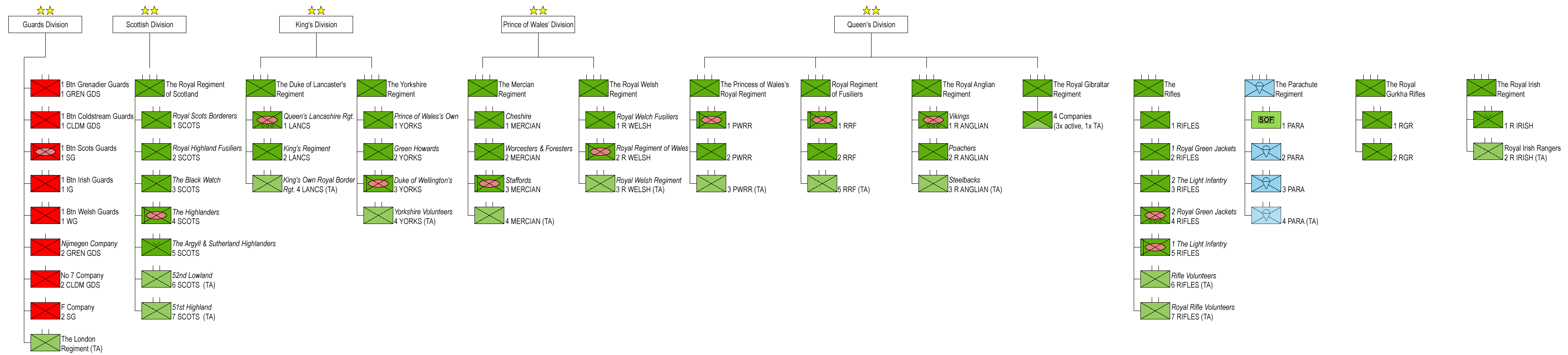 British Infantry